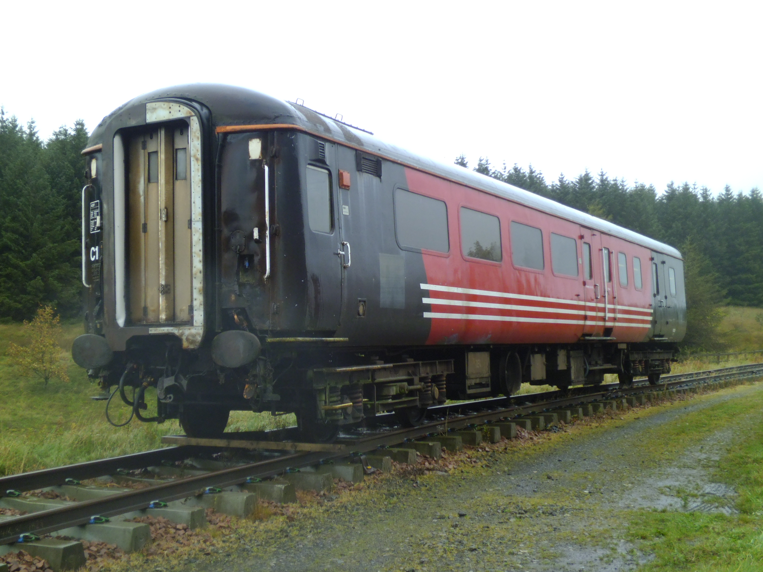 MkIIf Brake Second Open coach on loan to Waverley Route Heritage Association. I believe this is the first Virgin Rail liveried coach seen on the Waverley Route. 30th September 2012.